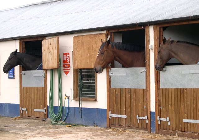 Stabled Horses. These fine equines were seen at a riding centre northwest of Chiverton Cross.